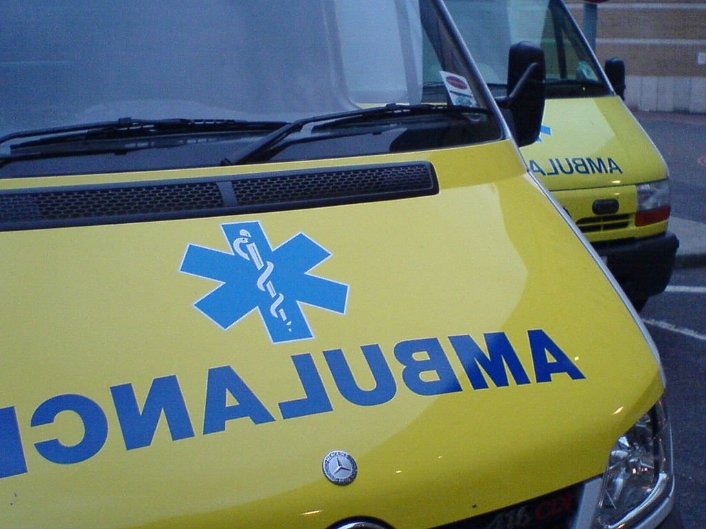 Ambulances parked outside of Guy's Hospital, London. The blue "star of life" features the Rod of Asclepius. "Ambulance" is written in mirror writing ("ECNALUBMA").